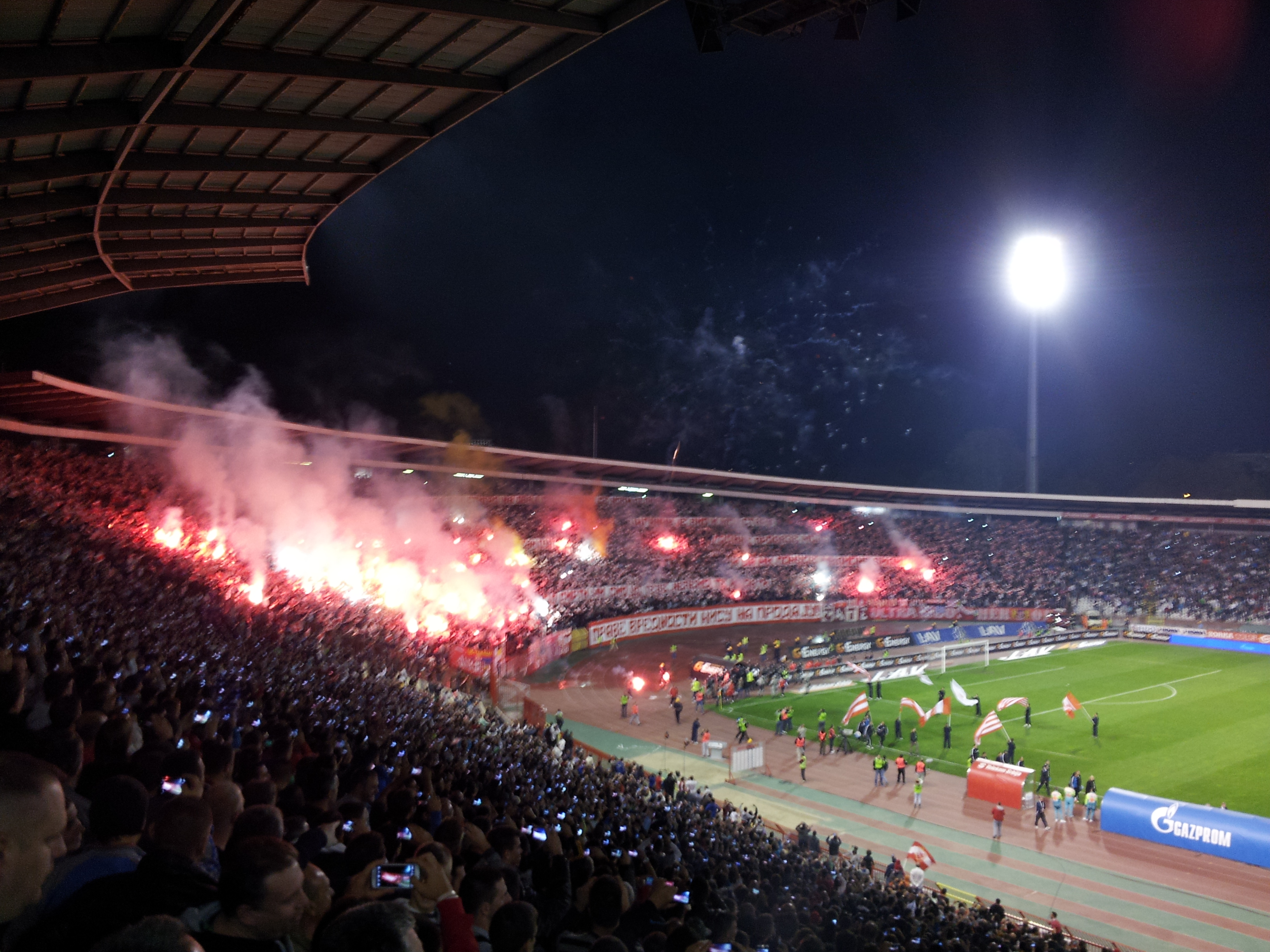 Delije on Belgrade Derby